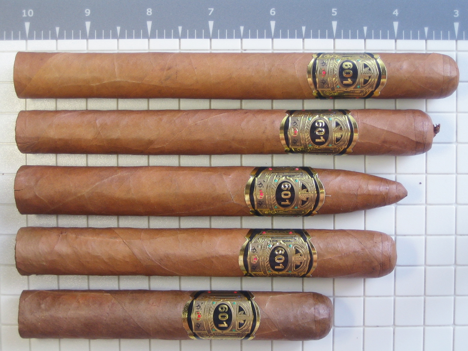 EO Premium 601 Serie Connecticut